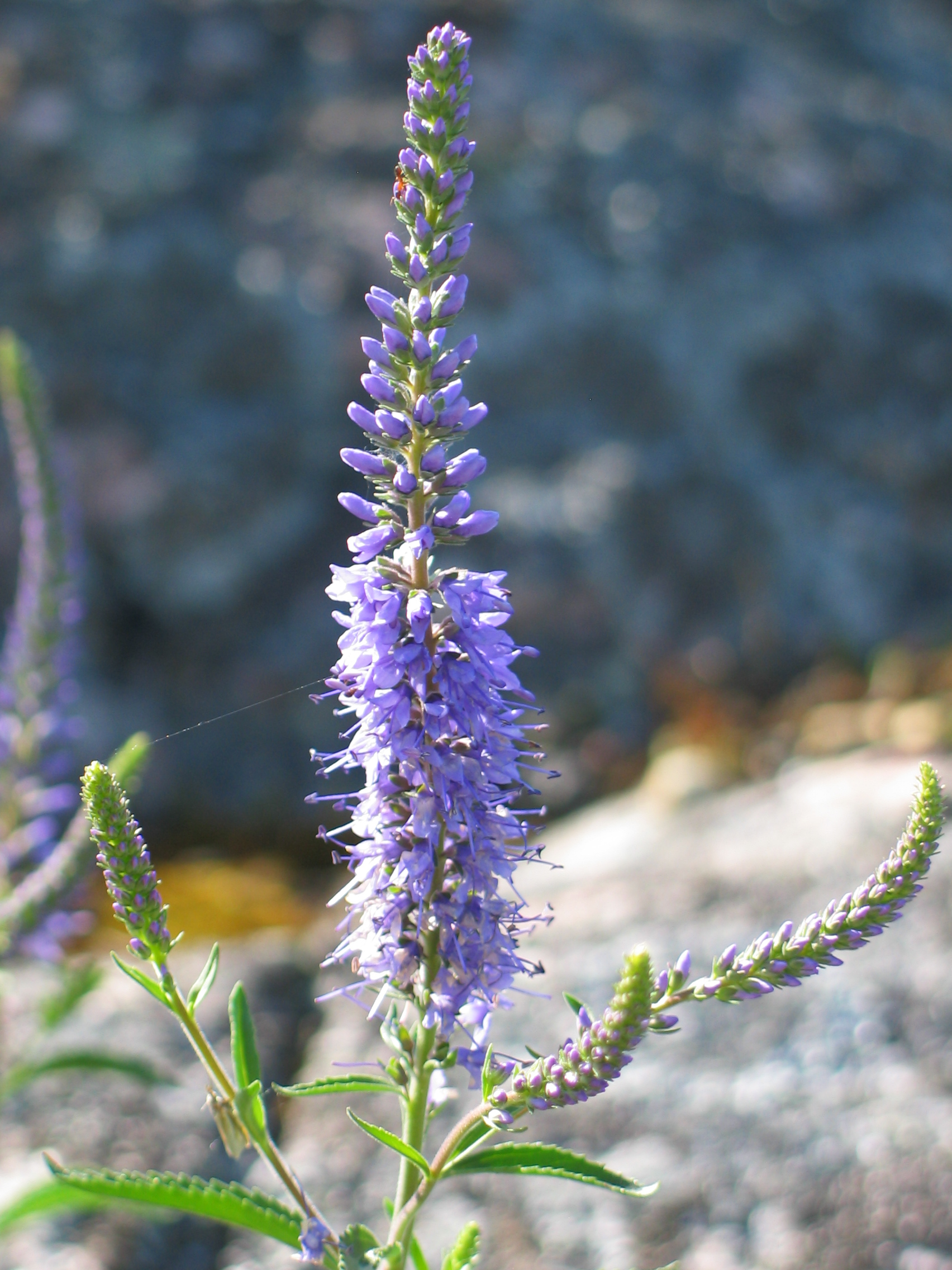 Pseudolysimachion longifolium, photo taken in Sweden